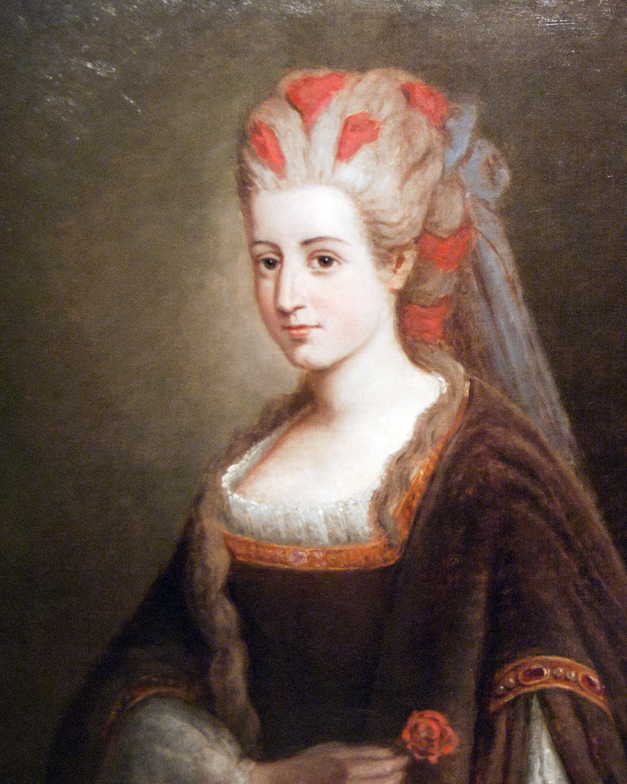 Charlotte Trottier Desrivieres, born 1723, daughter of Julien Trottier dit Desrivieres (1687 - 1737), of Montreal